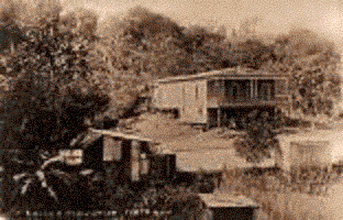 Porto Rico.- Real Photo Post Card unused & mailed from Ponce